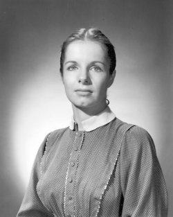 Photograph of American actress Phyllis Love (1925 - 2011), taken to promote the film Friendly Persuasion (1956).